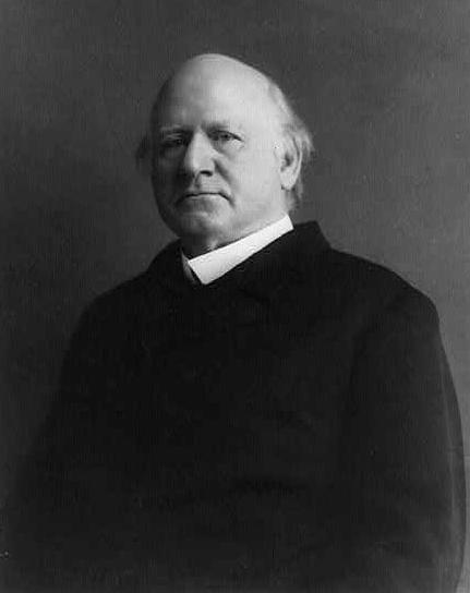 John Marshall Harlan, 1833-1911, United States Supreme Court Justice